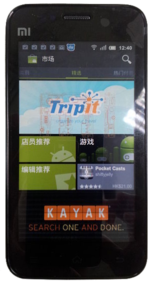 Xiaomi MI-One Handset